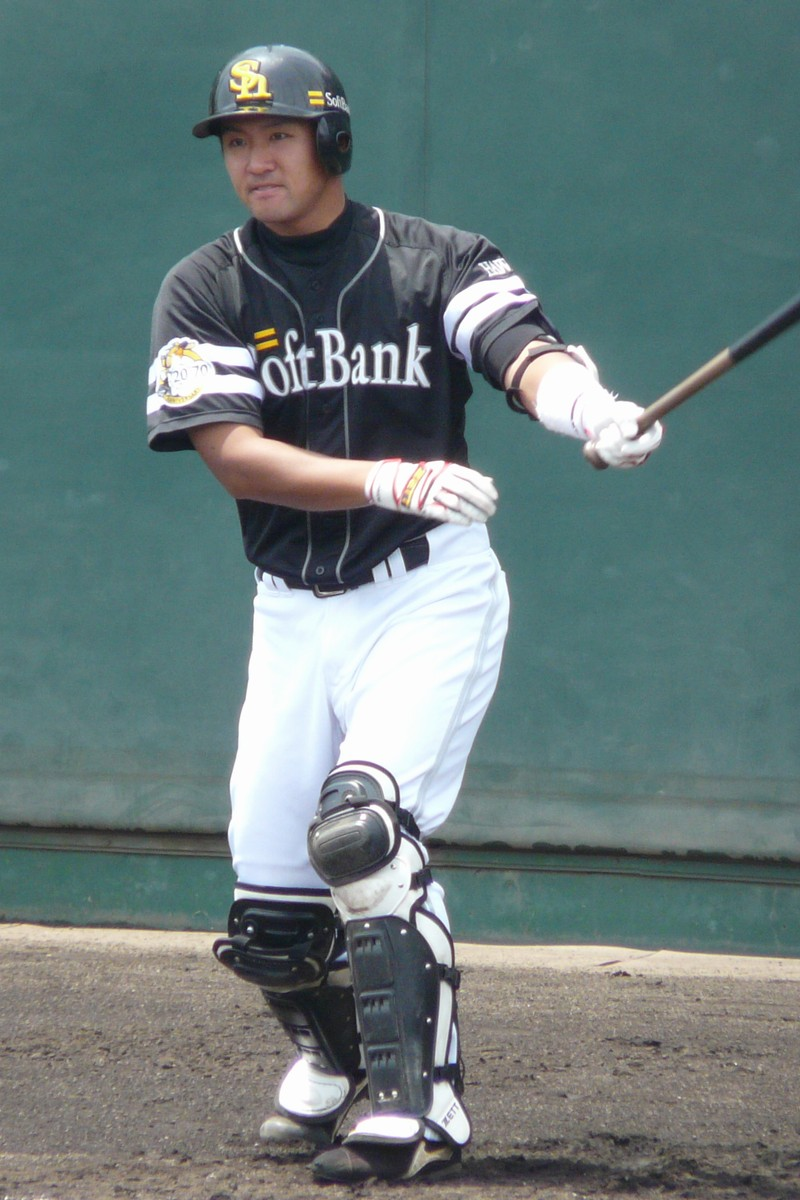 Yuta Arakawa